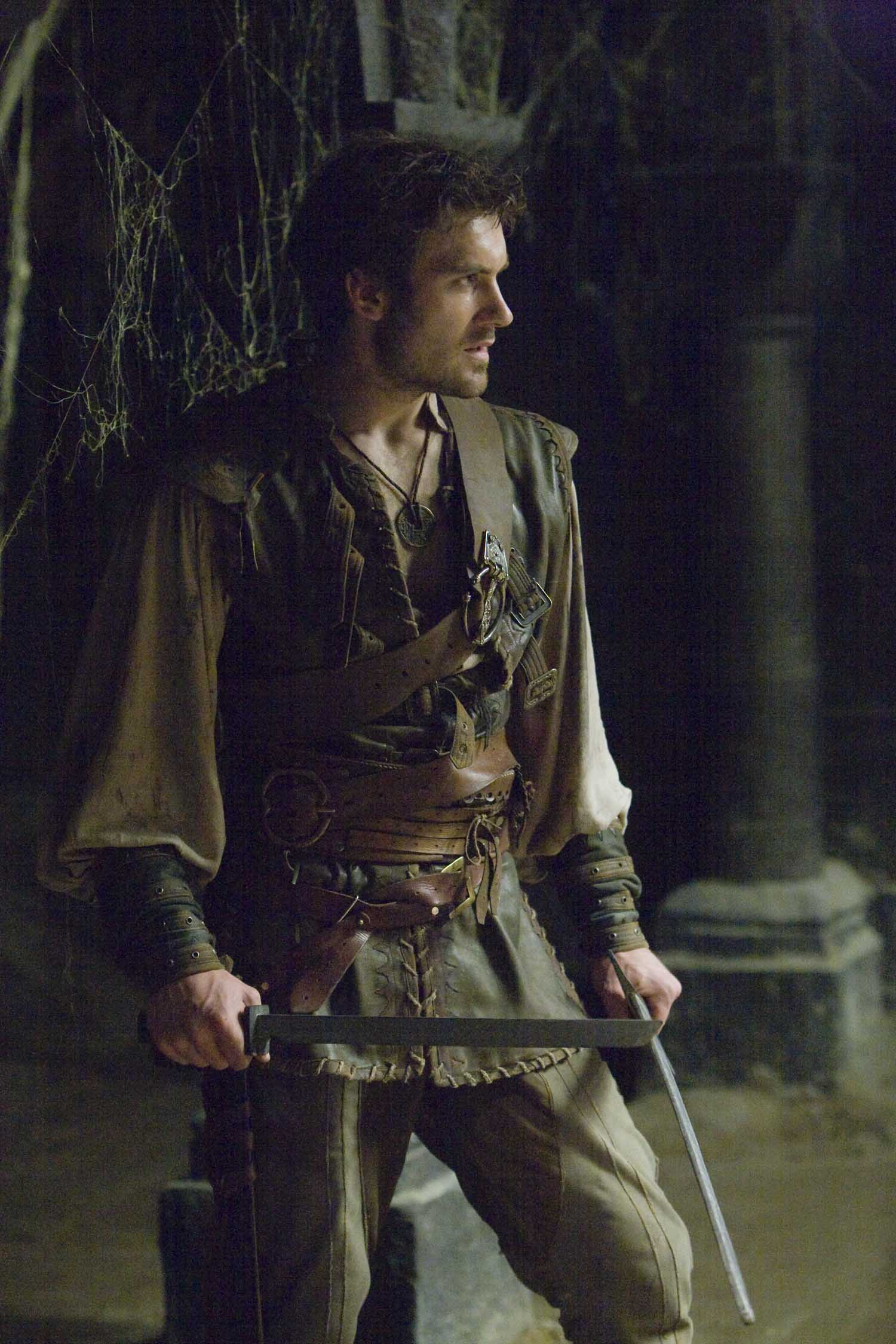 Clive Standen in Robin Hood